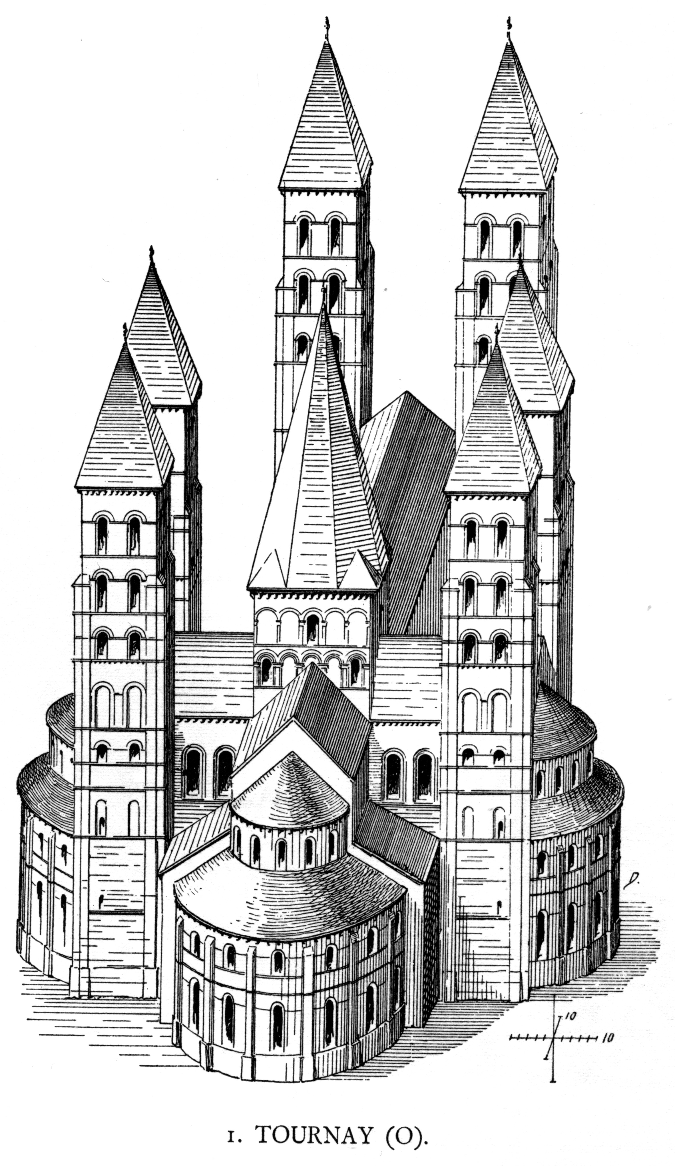 Tournay, Cathedral.